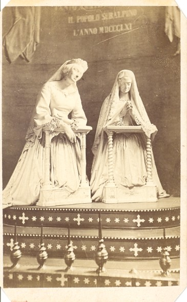 Giacomo Brogi (1822-1881) - "Turin - Statues group of the queens" . Mid 1860s. Catalogue # - n. 3760